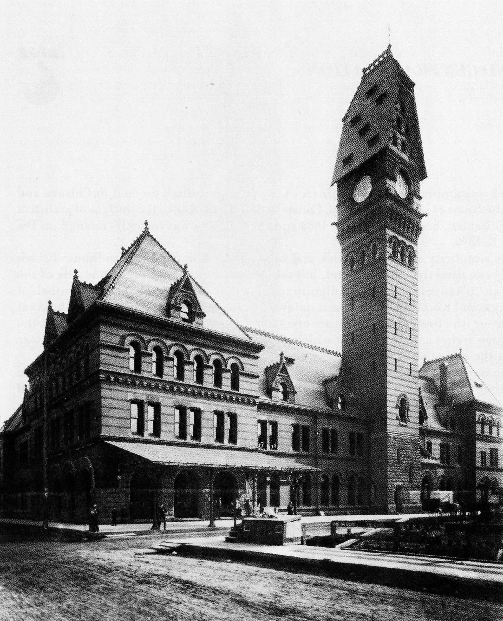 Chicago's Dearborn Station.